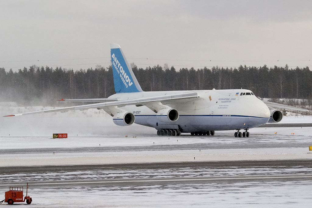 Antonov An-124 of Antonov Airlines.